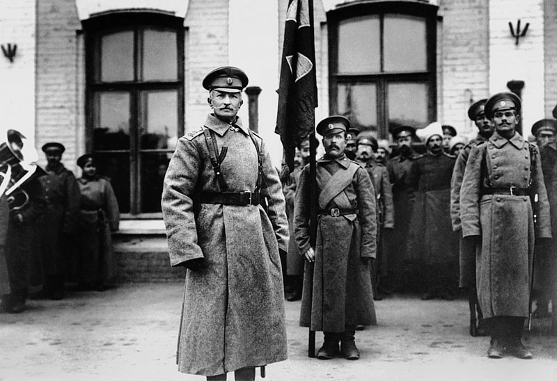 Aleksei Brusilov at Rivne Railway Station (October 1915)